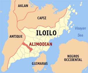 Map of Iloilo showing the location of Alimodian